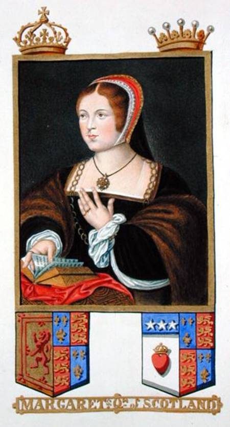 A picture of Margaret Tudor from "Memoirs of the Court of Queen Elizabeth"